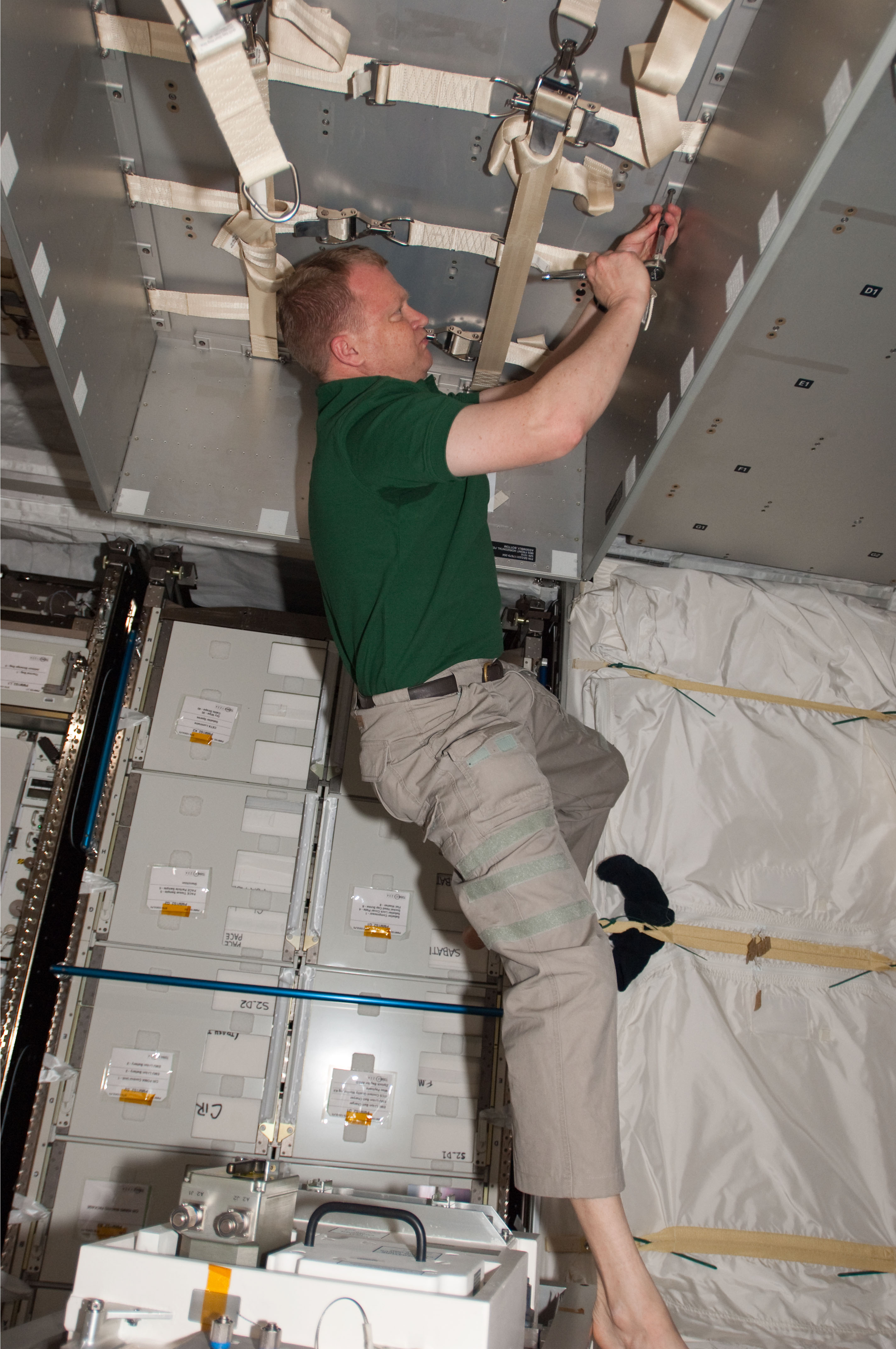 NASA astronaut Eric Boe, STS-133 pilot, works in the newly-installed Permanent Multipurpose Module (PMM) of the International Space Station while space shuttle Discovery remains docked with the station.